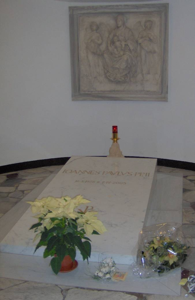 Crypt of Pope John Paul II.